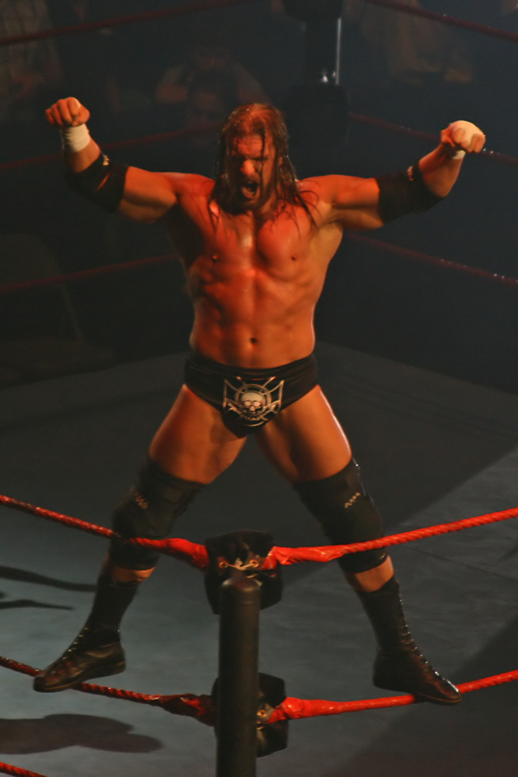 Triple H (Paul Michael Levesque) performing his iconic ring entrance pose involving standing on the second rope at the back righthand corner of the ring (from the usual TV camera point-of-view), pulling his arms up and back, and expanding his chest. Taken during the WWE Raw - Survivor Series Tour, at Rod Laver Arena, Melbourne Park, Melbourne, Australia. Triple H wrestled in the main event of the night, a tag-team bout involving Umaga & Randy Orton (reigning World Heavyweight Champion) vs Jeff Hardy & Triple H; the match was won by Triple H pinning Orton following a pedigree.